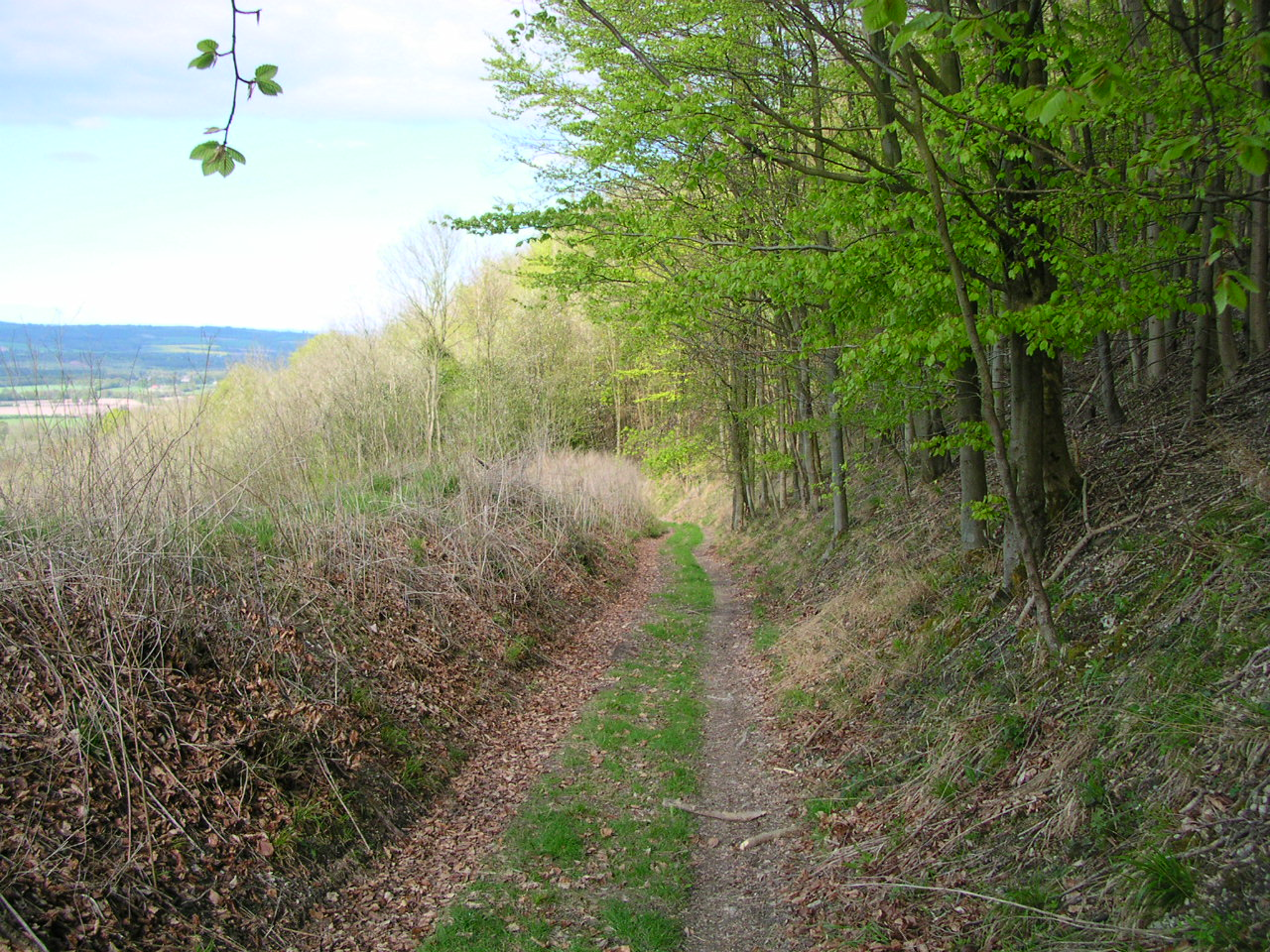 Roman track from Linch Down to Linch Farm, Bepton, West Sussex, England.